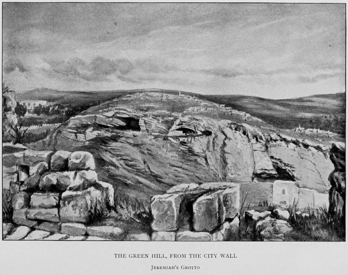 A sketch of Skull Hill, also known as Gordon's Calvary, created in 1889 by B. H. Harris. The caption below it reads: THE GREEN HILL, FROM THE CITY WALL; JEREMIAH'S GROTTO.